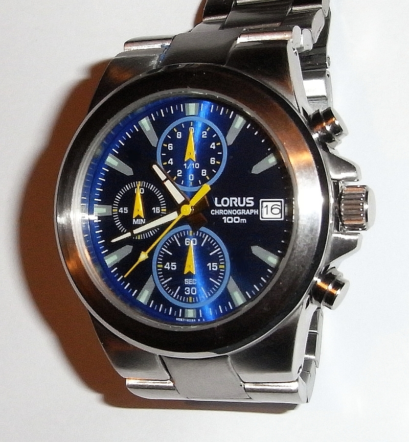 Quartz Clock